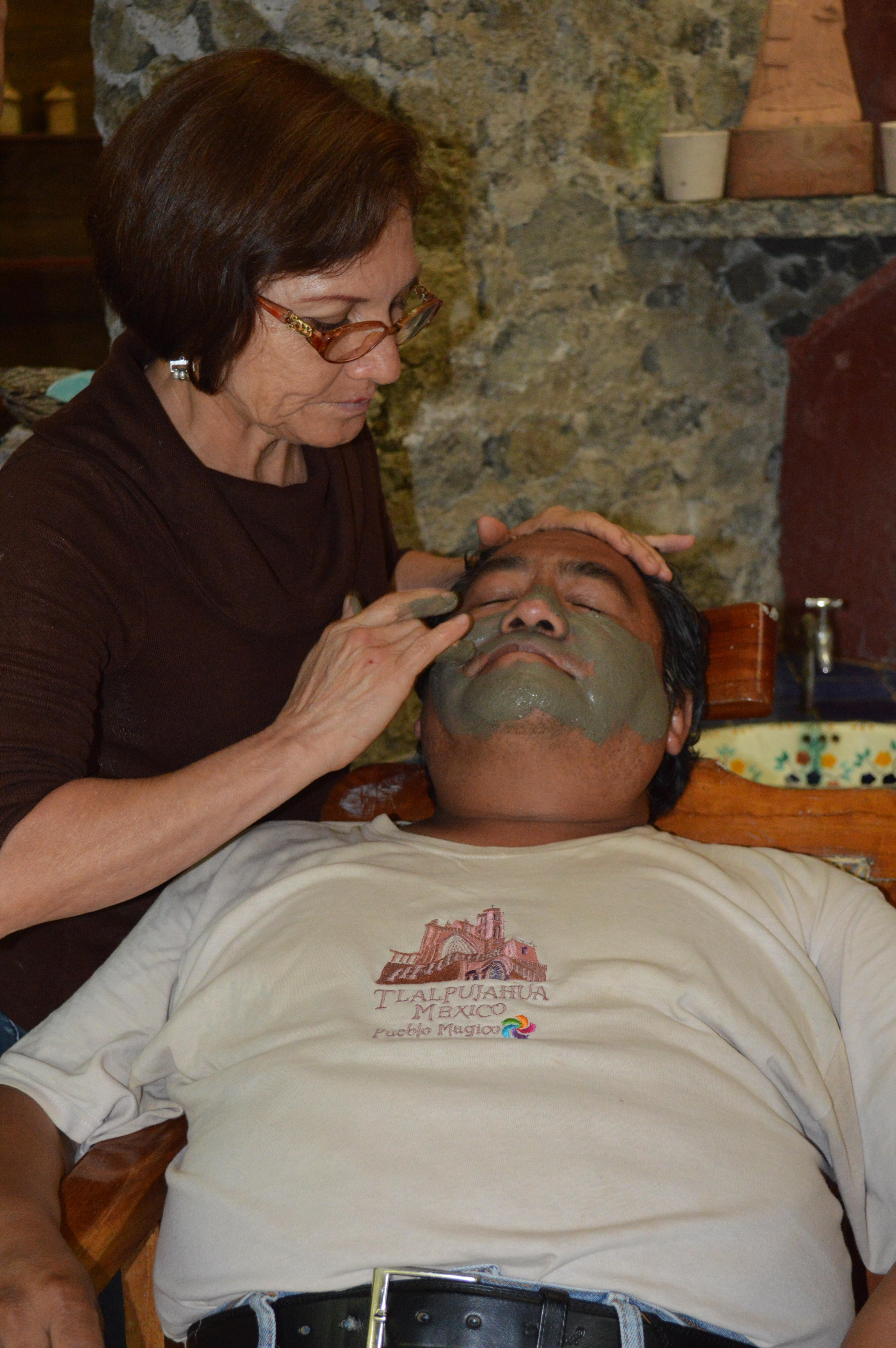 AlejandroLinaresGarcia gets a mud facial treatment at the Nanciyaga Ecological Park in Catemaco, Veracruz